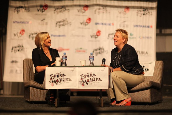 Daryl Hannah on Manaki Film Festival in Macedonia